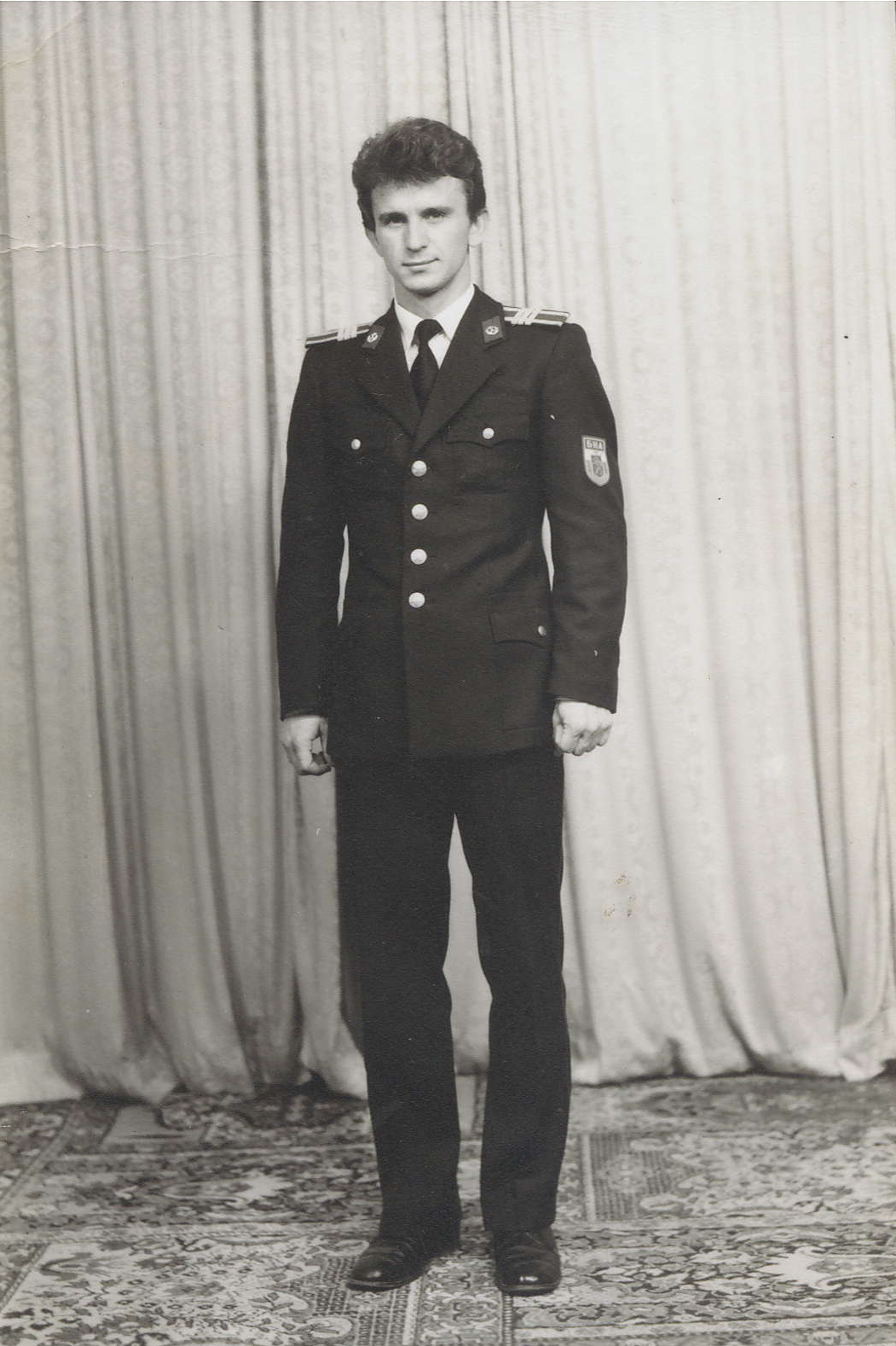 During military school.